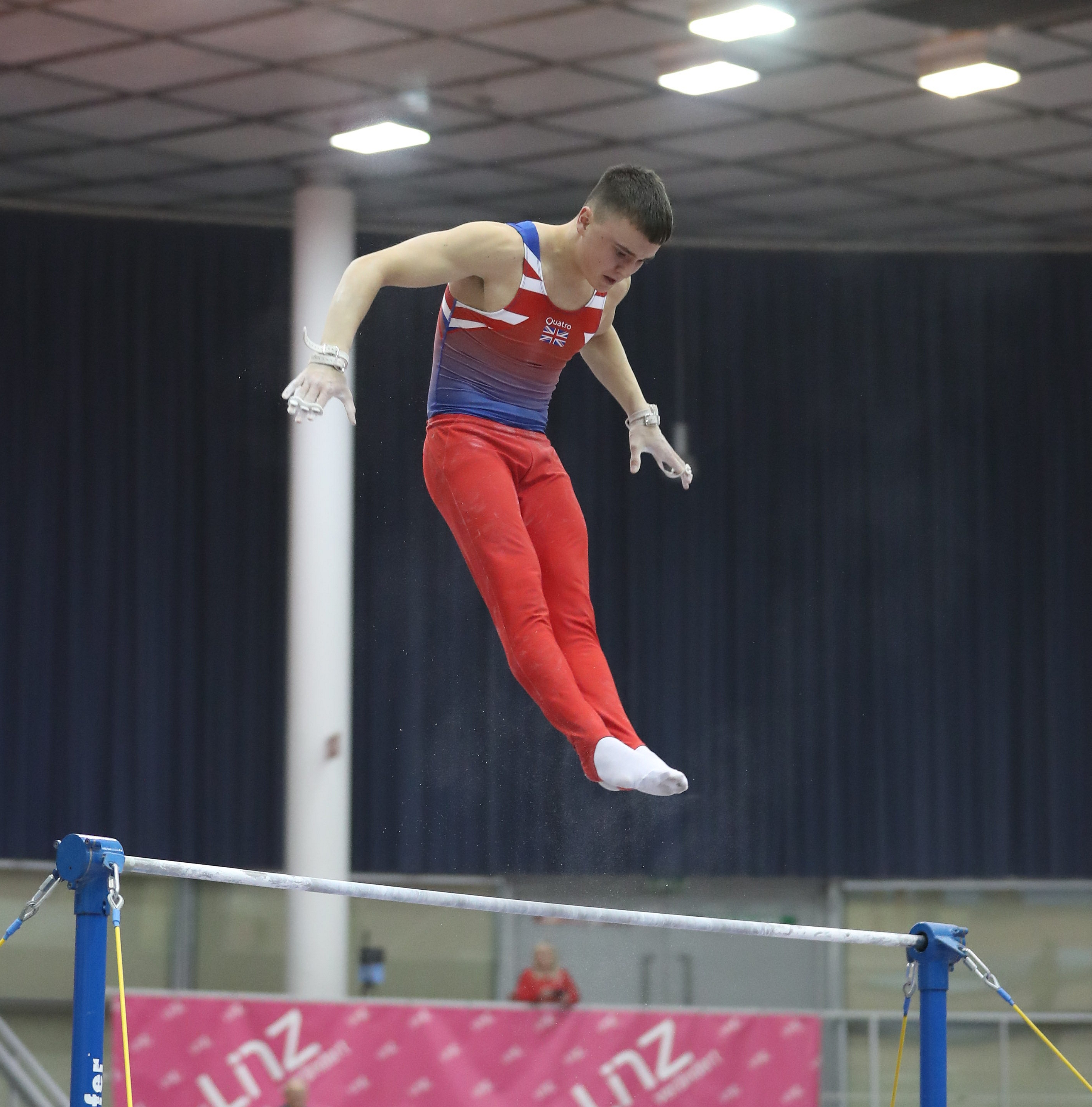 Great Britain on horizontal bar during the competition at the 15th Austrian TGW Future Cup Linz 2018. Depicted: Matthew Boardman.